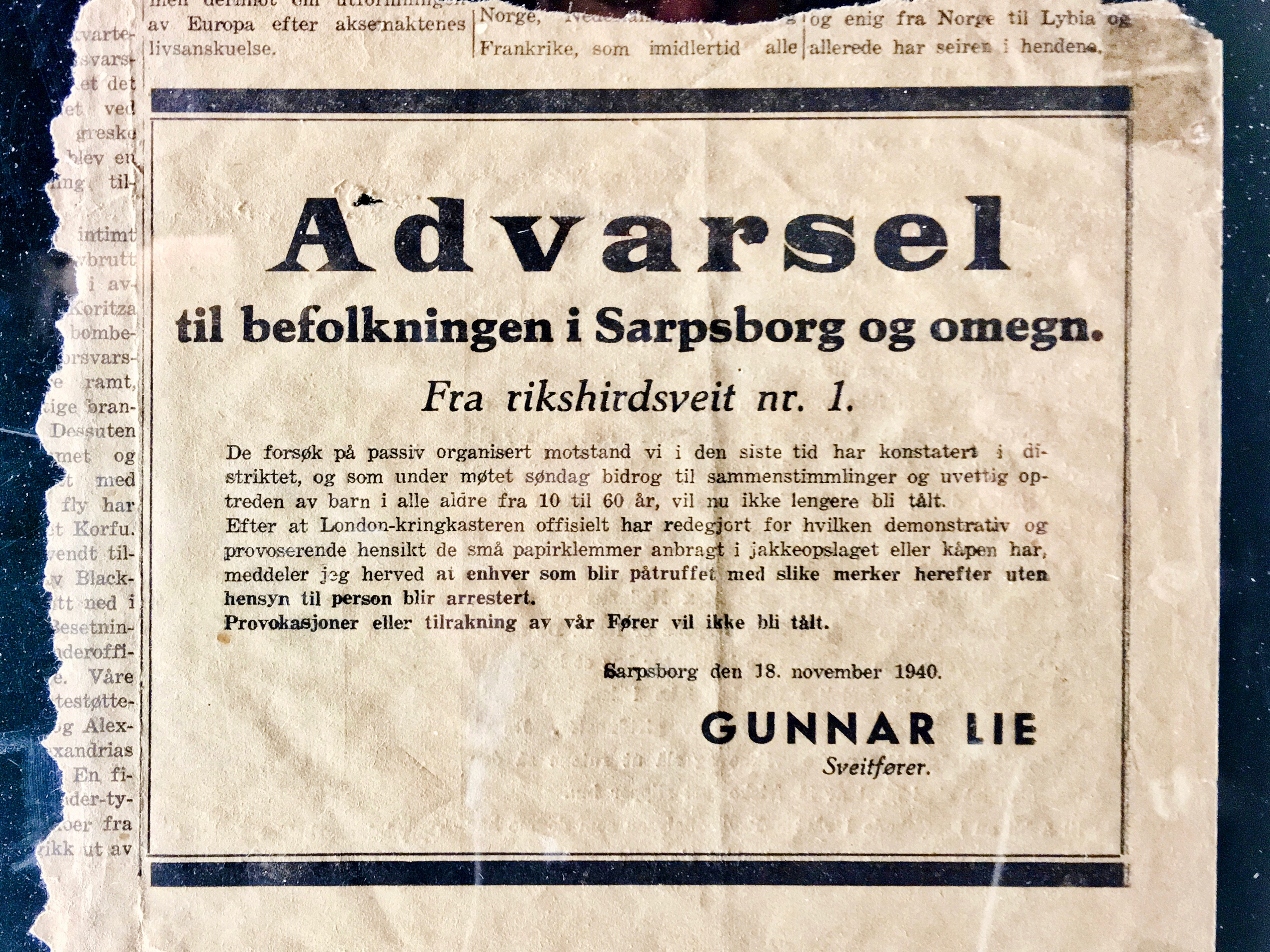 Advertisment in a Norwegian newspaper 1940-11-18 with warning from Nasjonal Samling, fascist party in Norway before and during World War 2. People using paperclips on lapels and coats as symbols of national unity and resistance against the Nazi regime will be arrested. Photo taken on 2017-11-30 at the exhibition of Norway's WW2 Resistance Museum (Hjemmefrontmuseet) at Akershus fortress in Oslo, Norway.